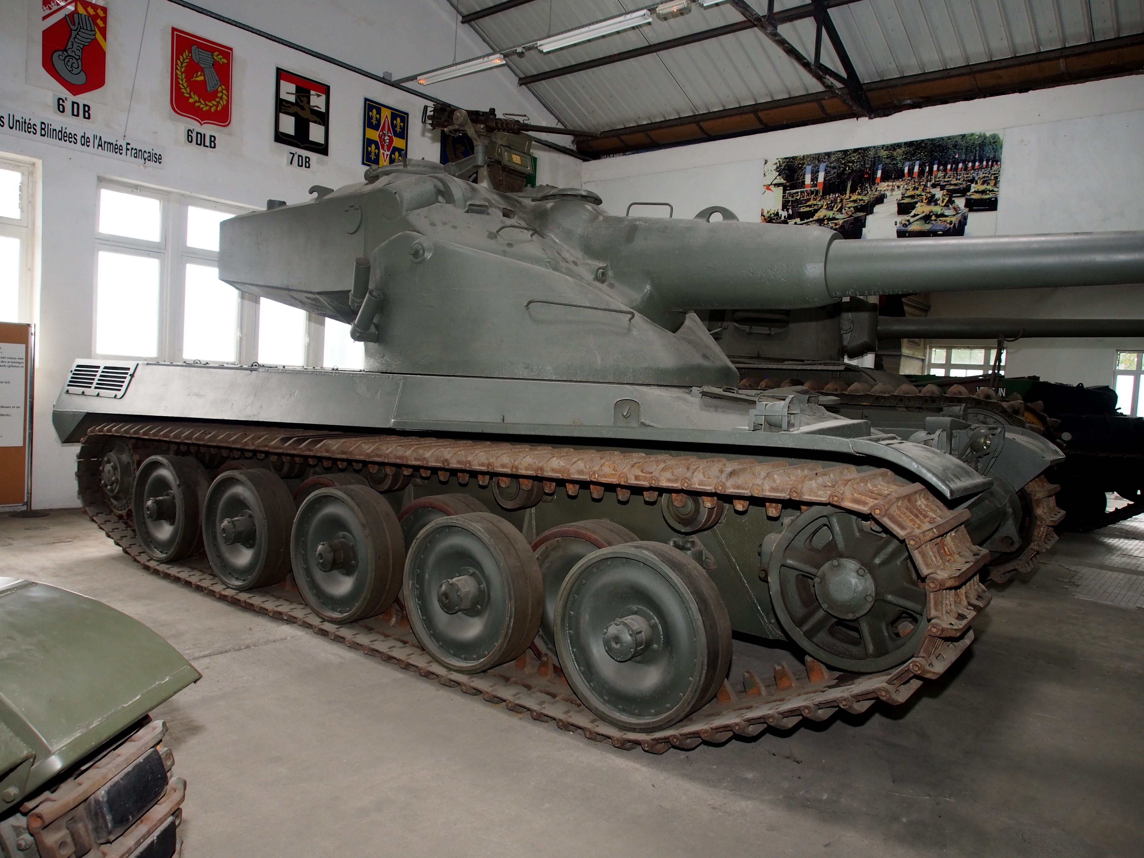 Photographed in the Musée des Blindés, France.